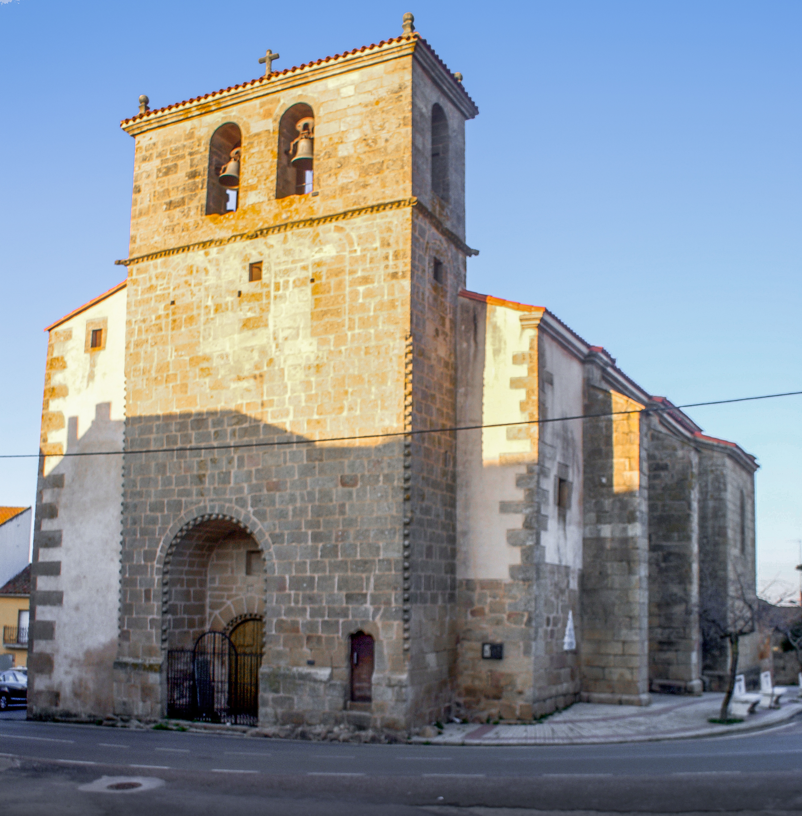 Church of Masueco, Salamanca, Spain.